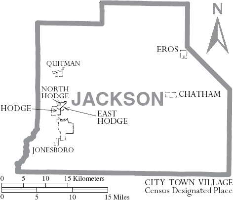 Map of Jackson Parish, Louisiana, United States with municipal boundaries